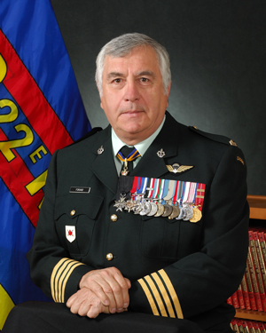 Picture of MGen (ret) Alain Forand in 2009